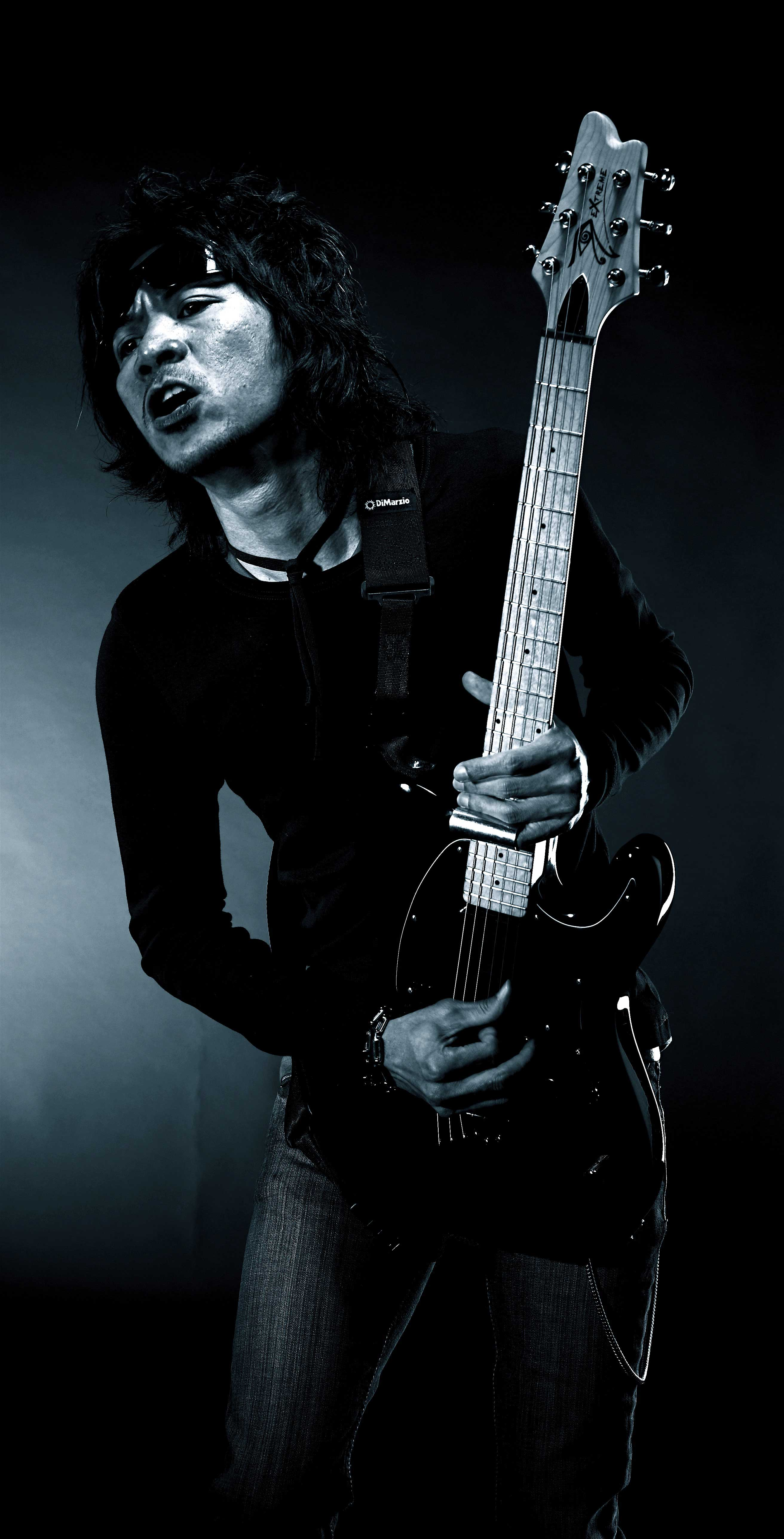 Indonesian guitarist Abdee Negara